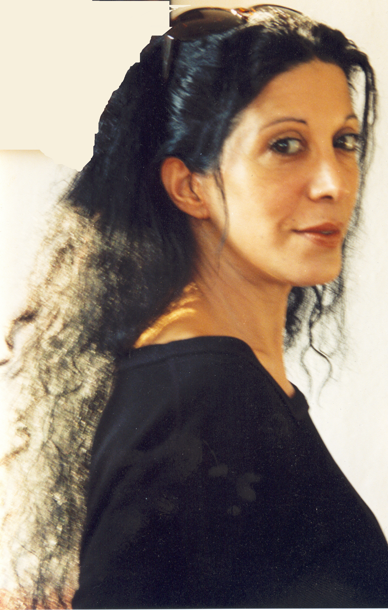 Nizza Thobi.